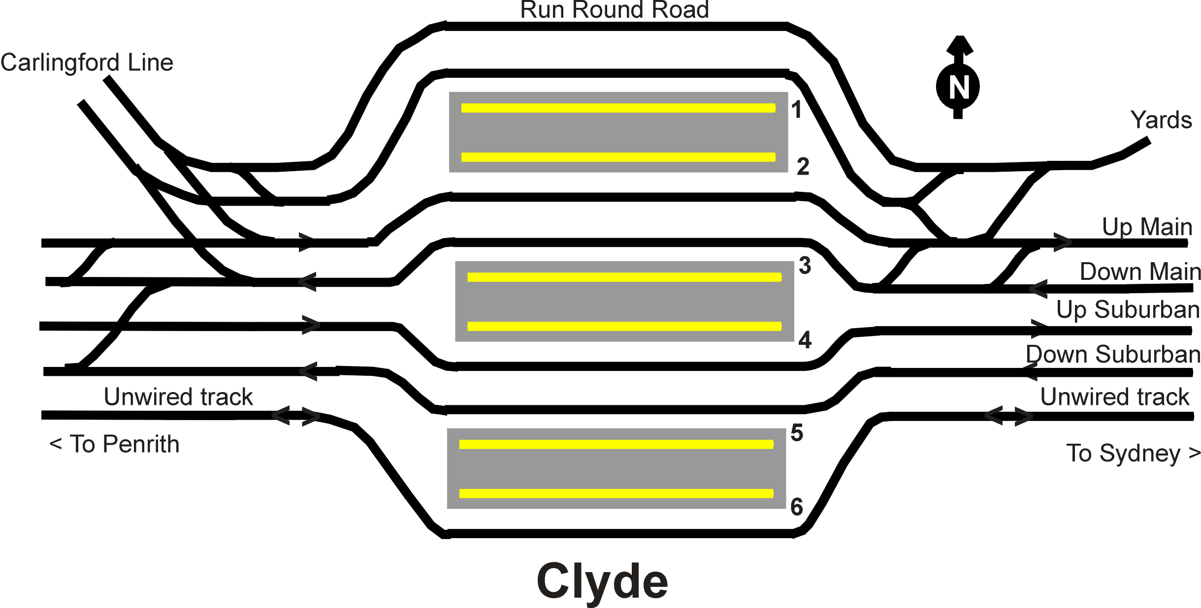 Track layout at Clyde railway station